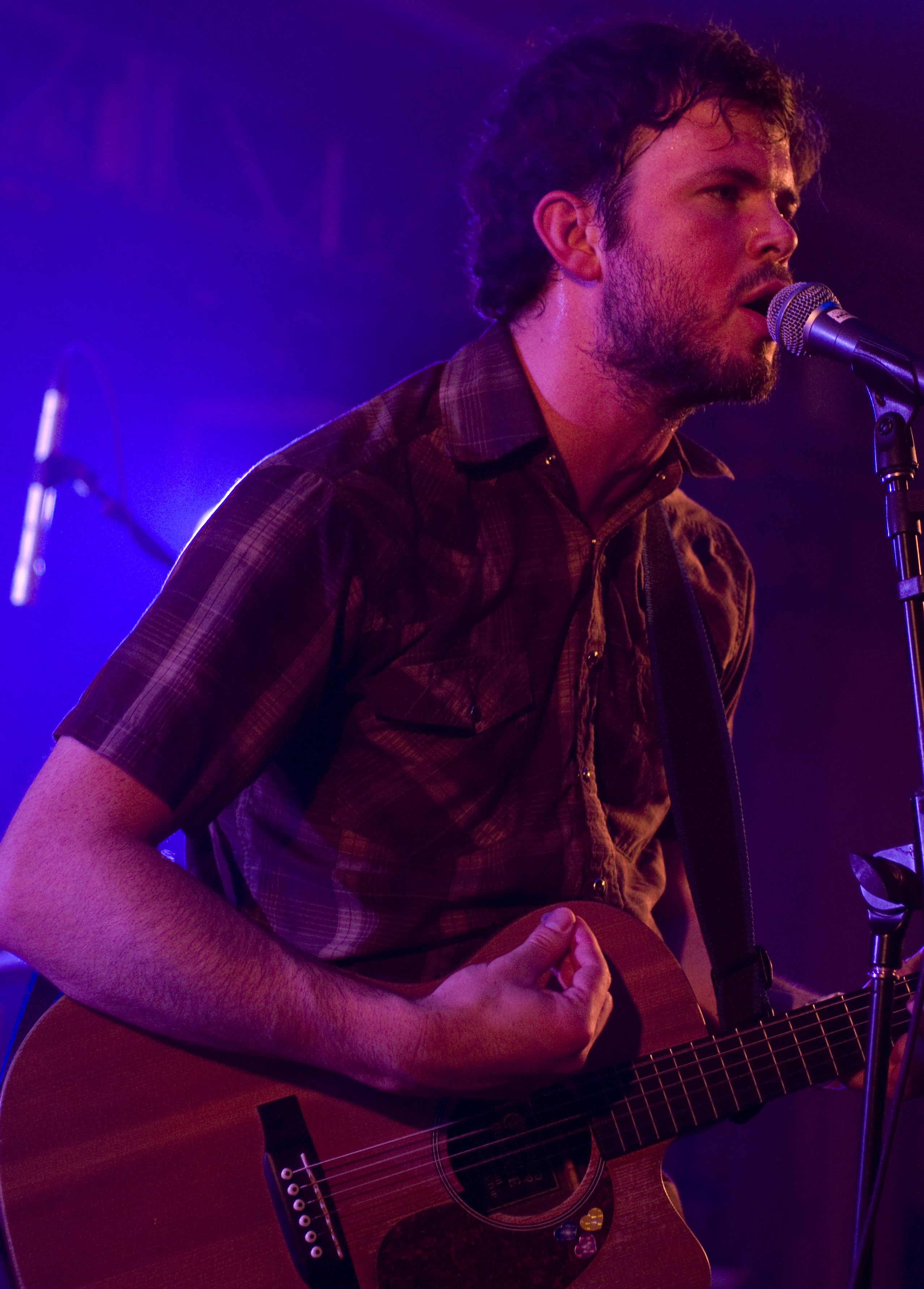 Wintersleeps Paul Murphy